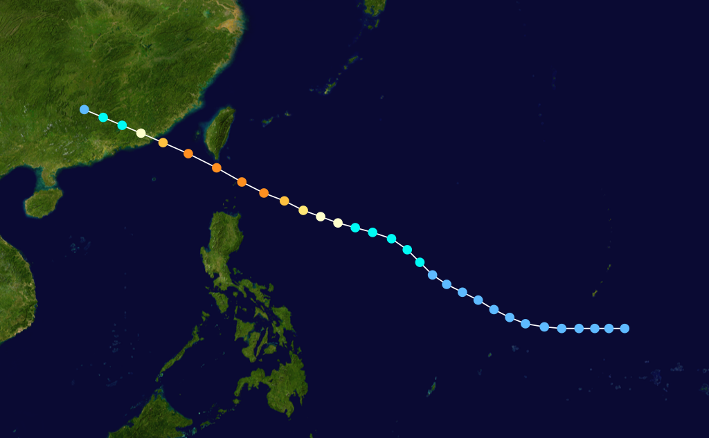 Typhoon Amy 1991 track. Uses the color scheme from the Saffir-Simpson Hurricane Scale.